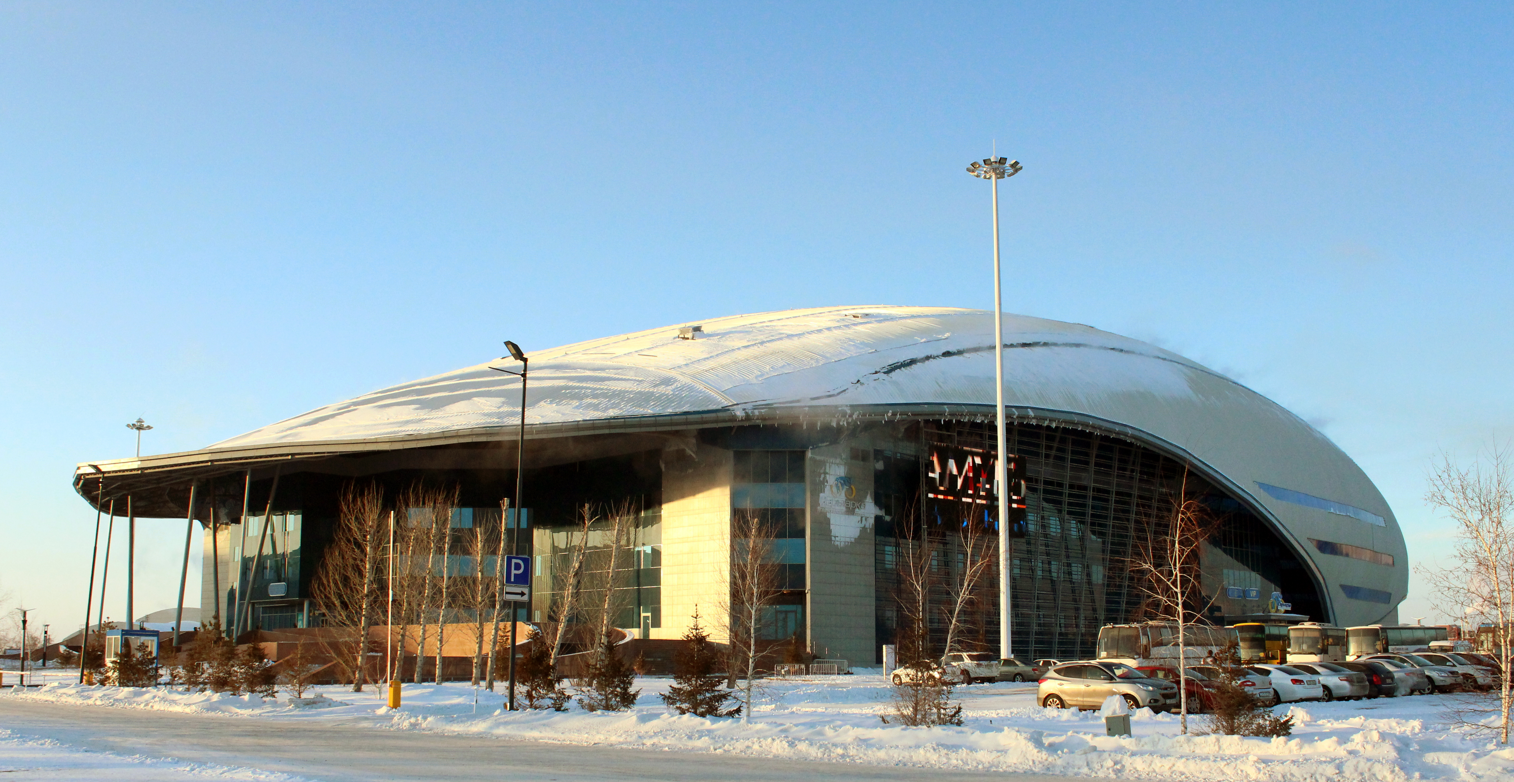 Saryarka Velodrome in Nur-Sultan, Kazakhstan.